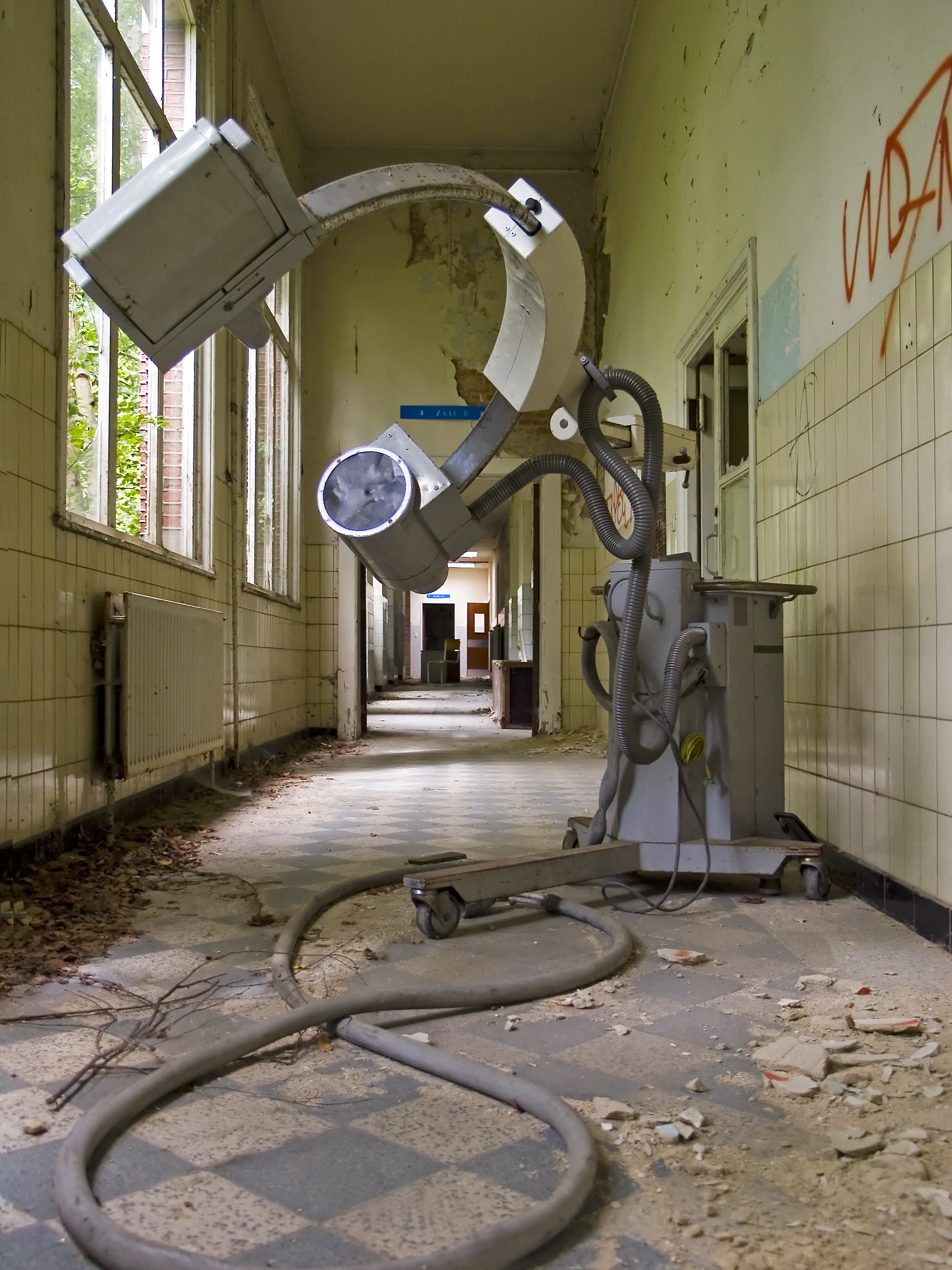 Intimidating radiation machine found in the abandoned military hospital, Antwerp, Belgium. Taken during my very first urbex experience - my cherry - into Antwerp's abandoned military hospital.